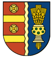 Coat of Arms of Boffzen